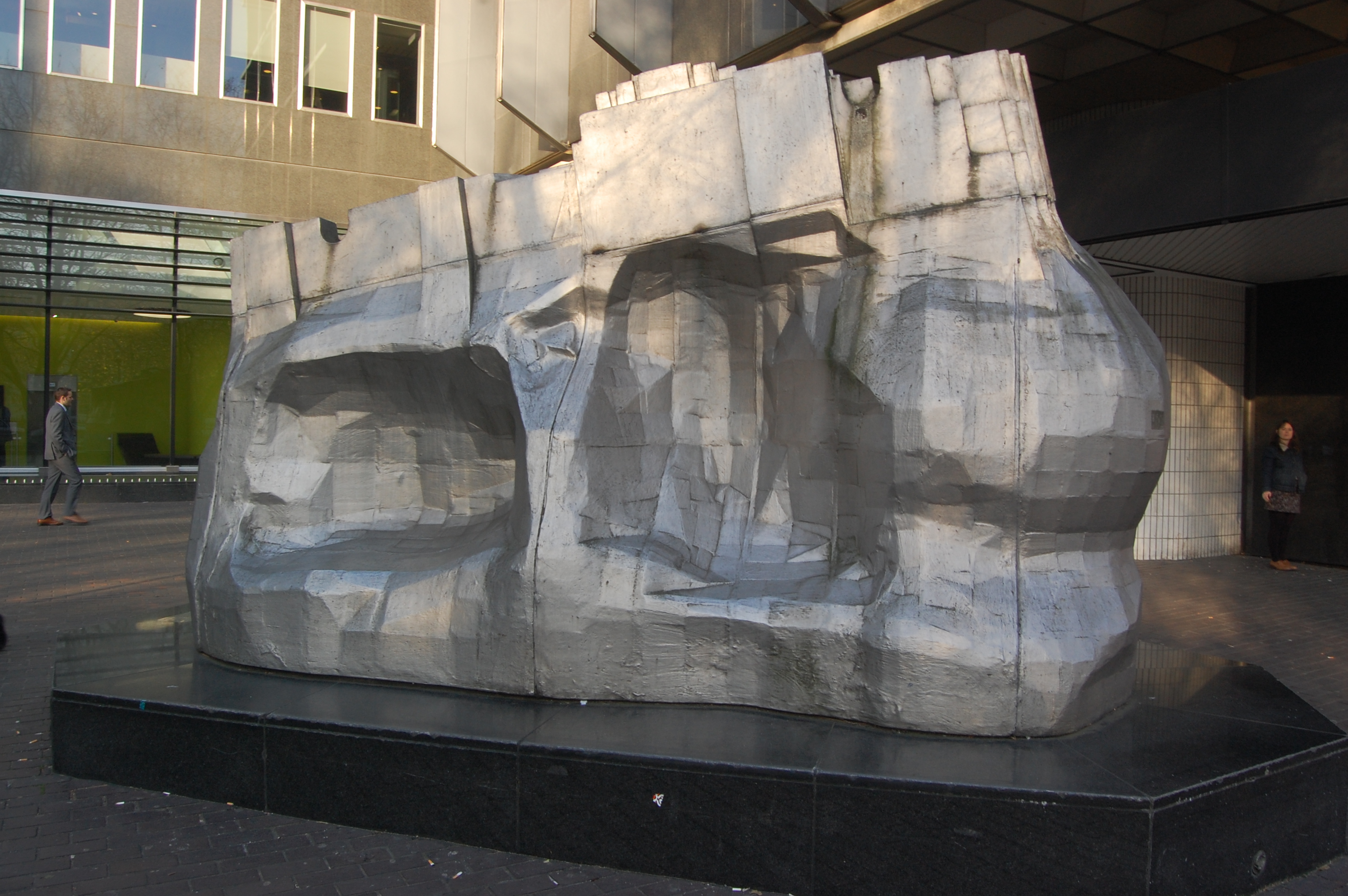 Sculpture by Eduardo Paolozzi in Euston Square, London, England.